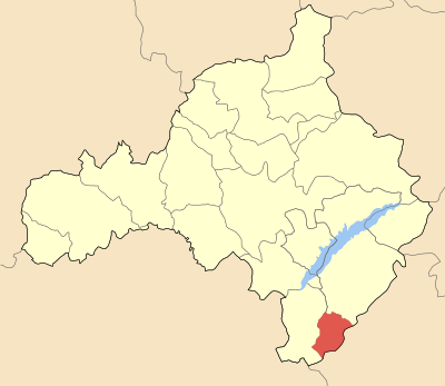 Locator map of Livaderou community (Κοινότητα Λιβαδερού) at Kozanis perfecture, Greece.